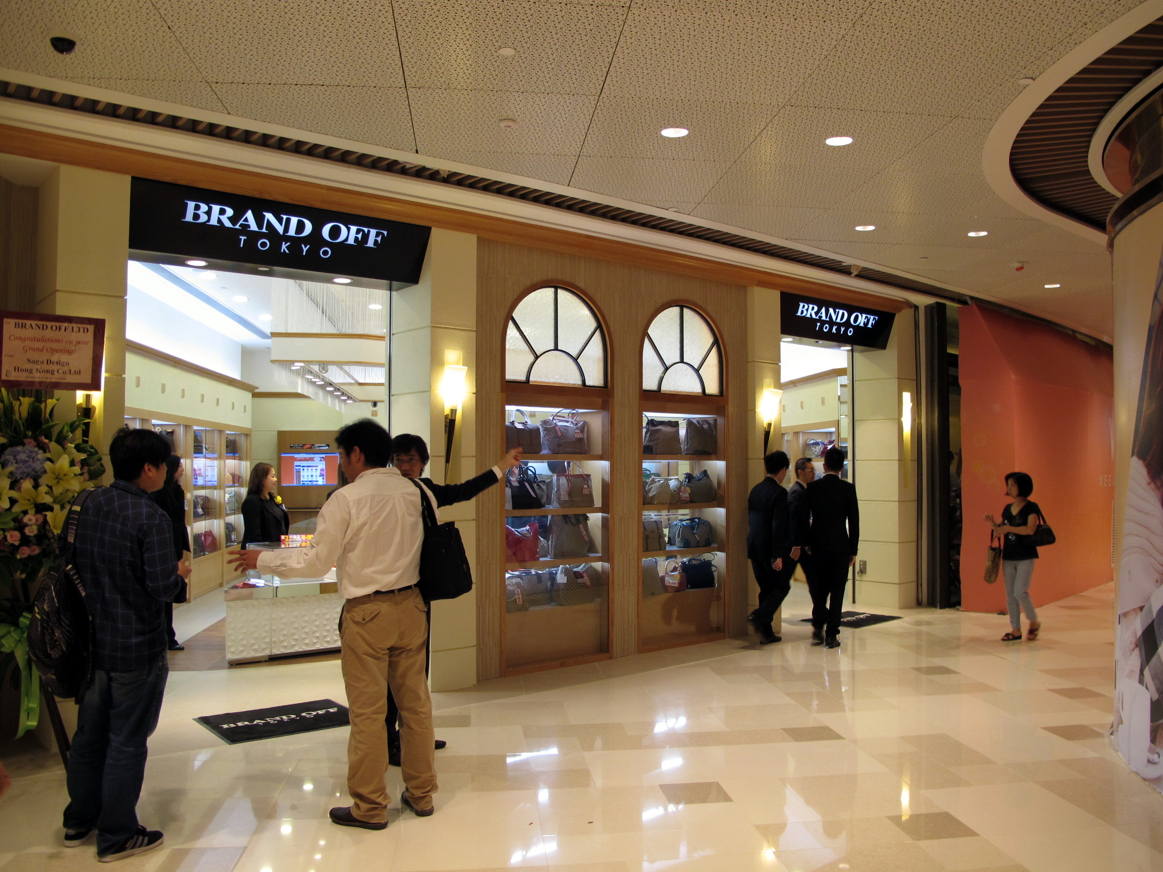 V City Brand off